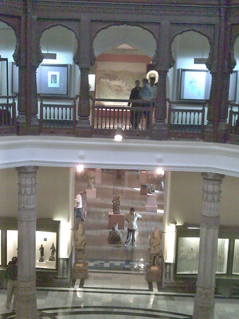 Prince of Wales Museum interior, showing ground and first floor